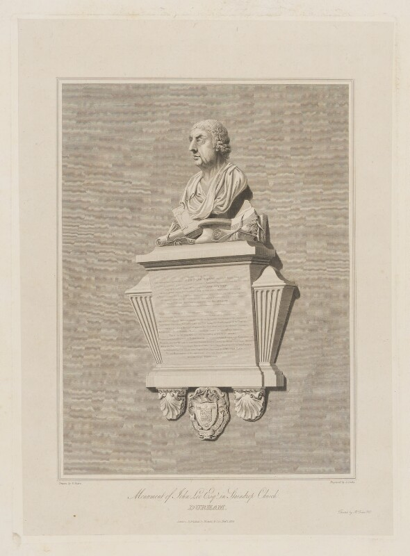 Monument (1795) to John Lee (1733–1793), English lawyer, politician, and law officer of the Crown, in Staindrop Church.